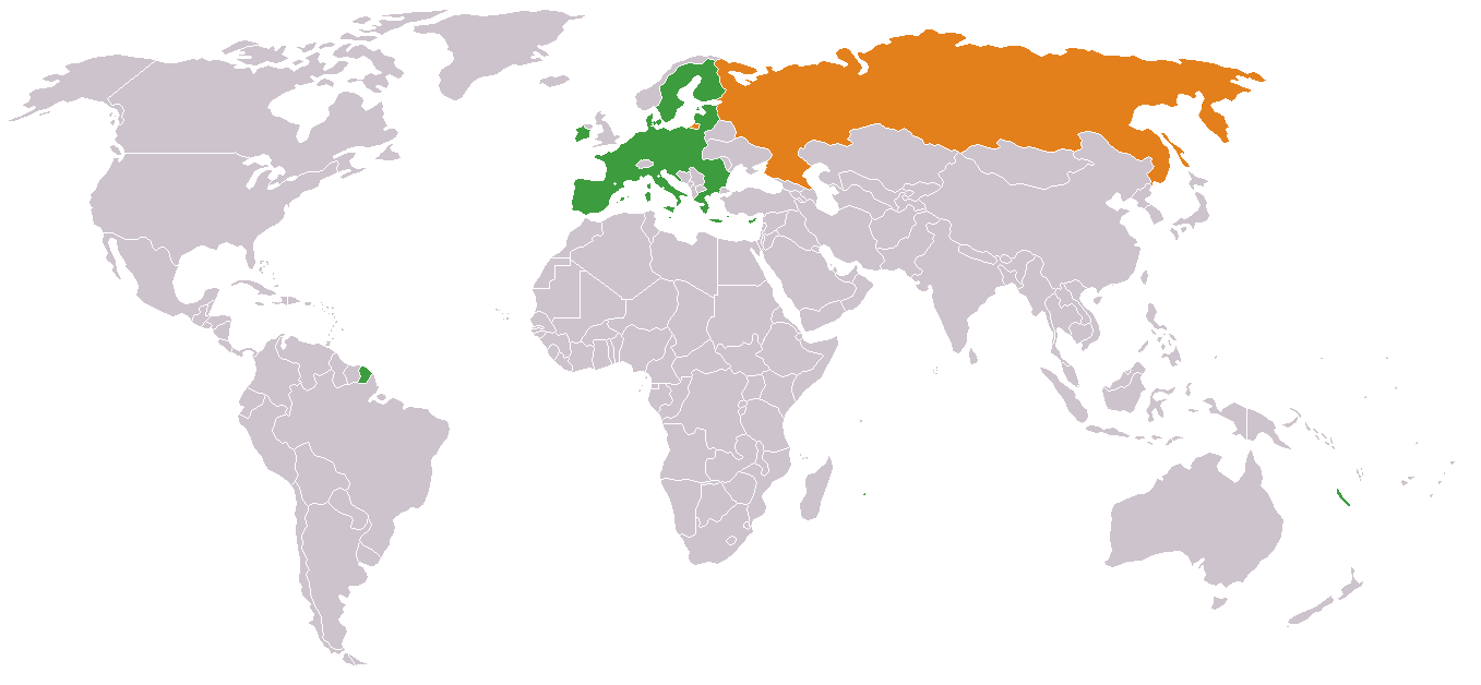 Map showing the position of Russia and the EU